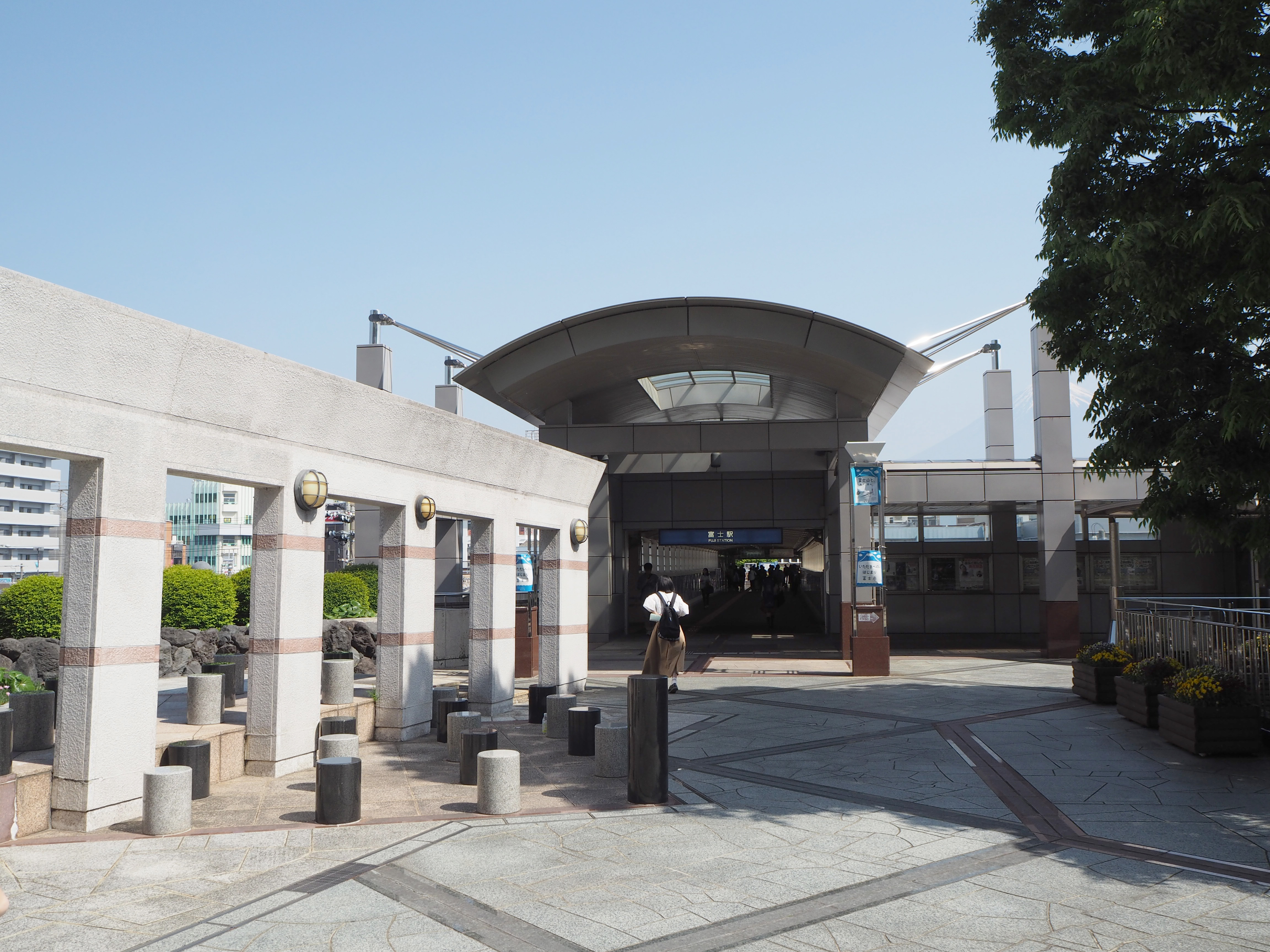 South entrance of Fuji Station